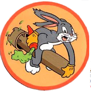 Emblem of the 548th Bombardment Squadron (World War II)